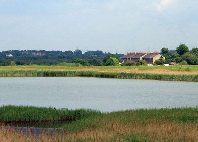 Nature replaces industry One of the old slurry lagoons left behind when Fryston and Wheldale collieries closed in the 1980s, now part of the RSPB's Fairburn Ings reserve. Terraced houses of Fryston in middle distance right, buildings in Fairburn on the horizon left.